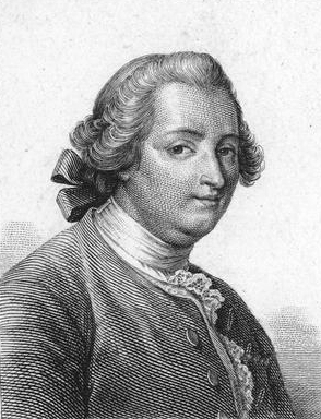 French poet and playwright Jean-Baptiste Gresset (1709-1777) by Alexandre-Vincent Sixdeniers (1795-1846).